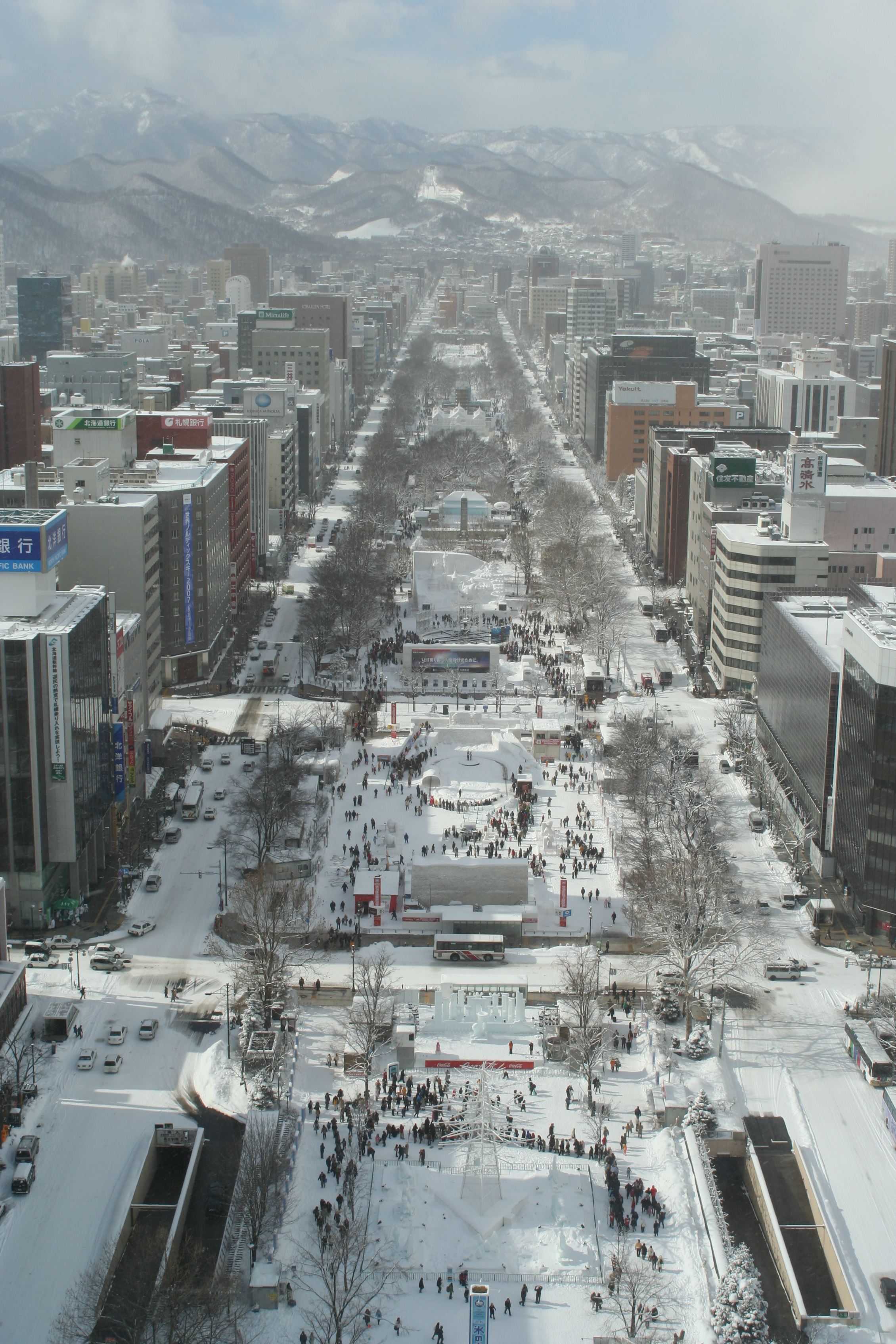 View of the Odori Park, Main Site of the Sapporo Snow Festival, from Sapporo TV Tower)